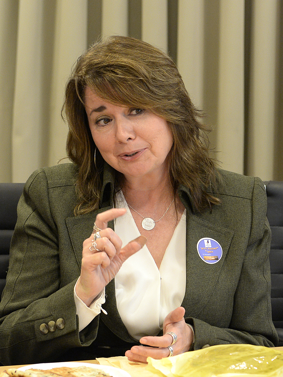 Teacher of the Year Shanna Peeples Gives Educated Inspiration. Love Before Curriculum.